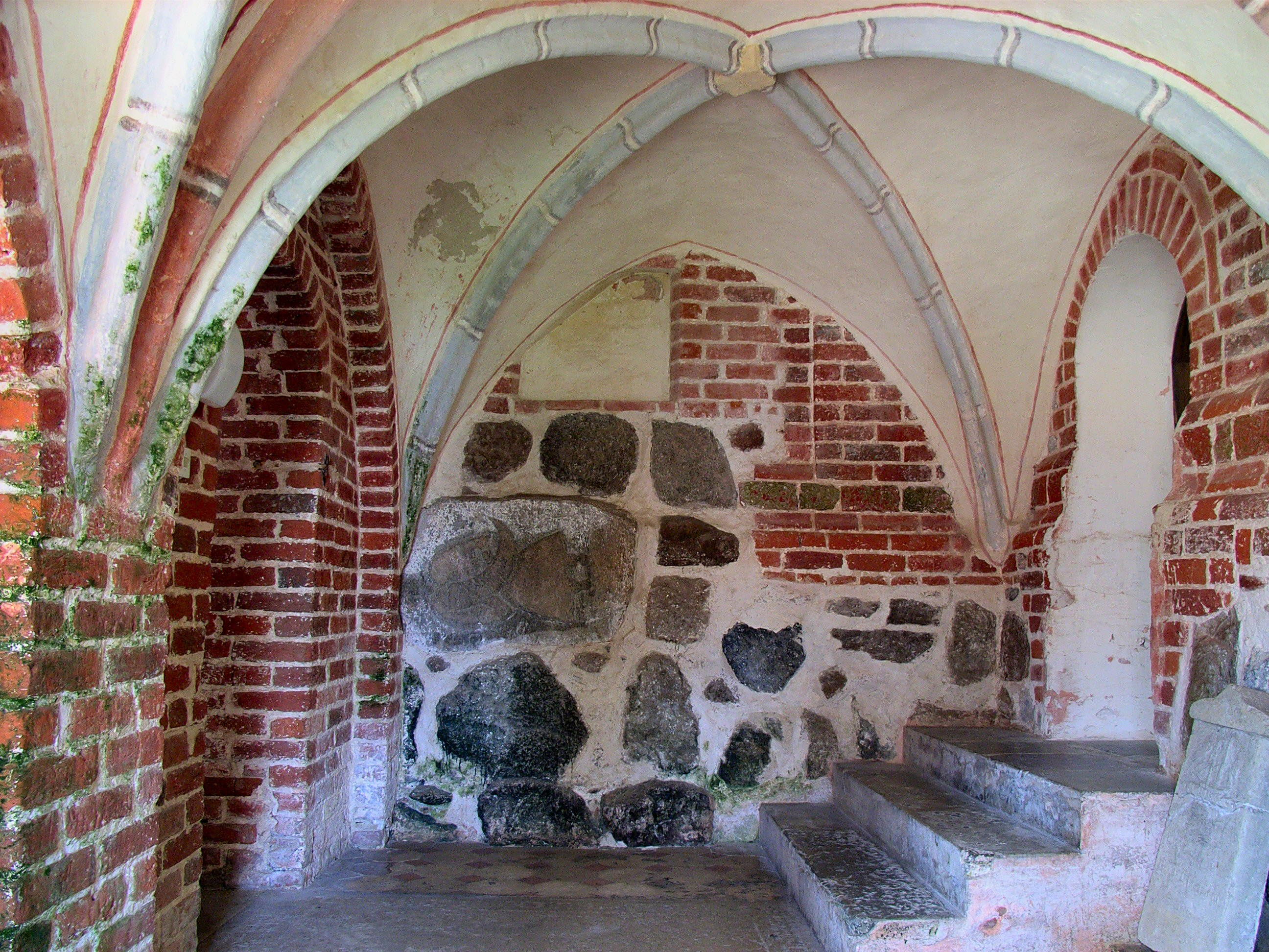 the Svantevit-Stone in the church in Altenkirchen on the island Rügen